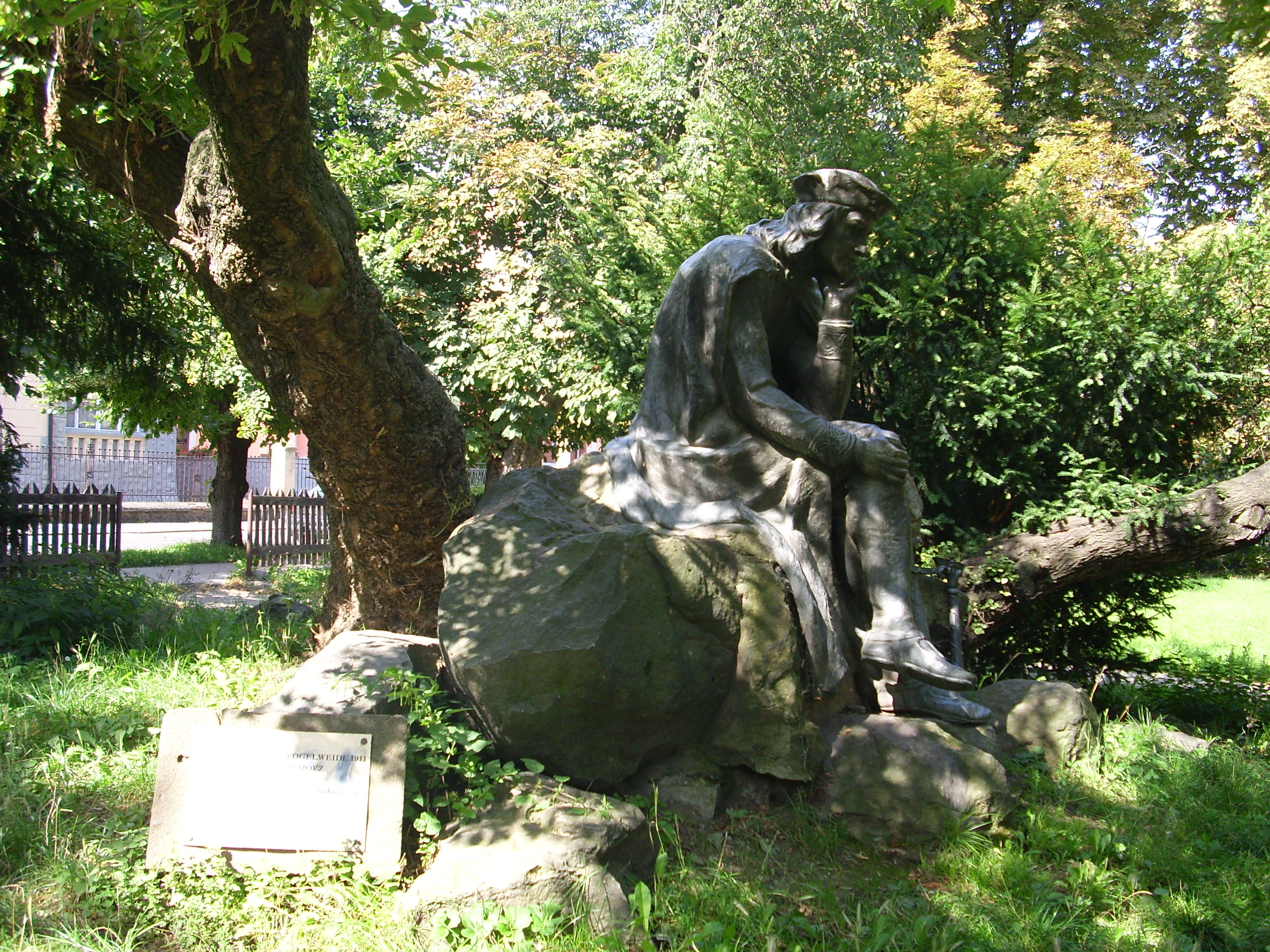 Statue of Walther von der Vogelweide in Duchcov in Czech Republic; Author: Heinrich Scholz in the year 1991